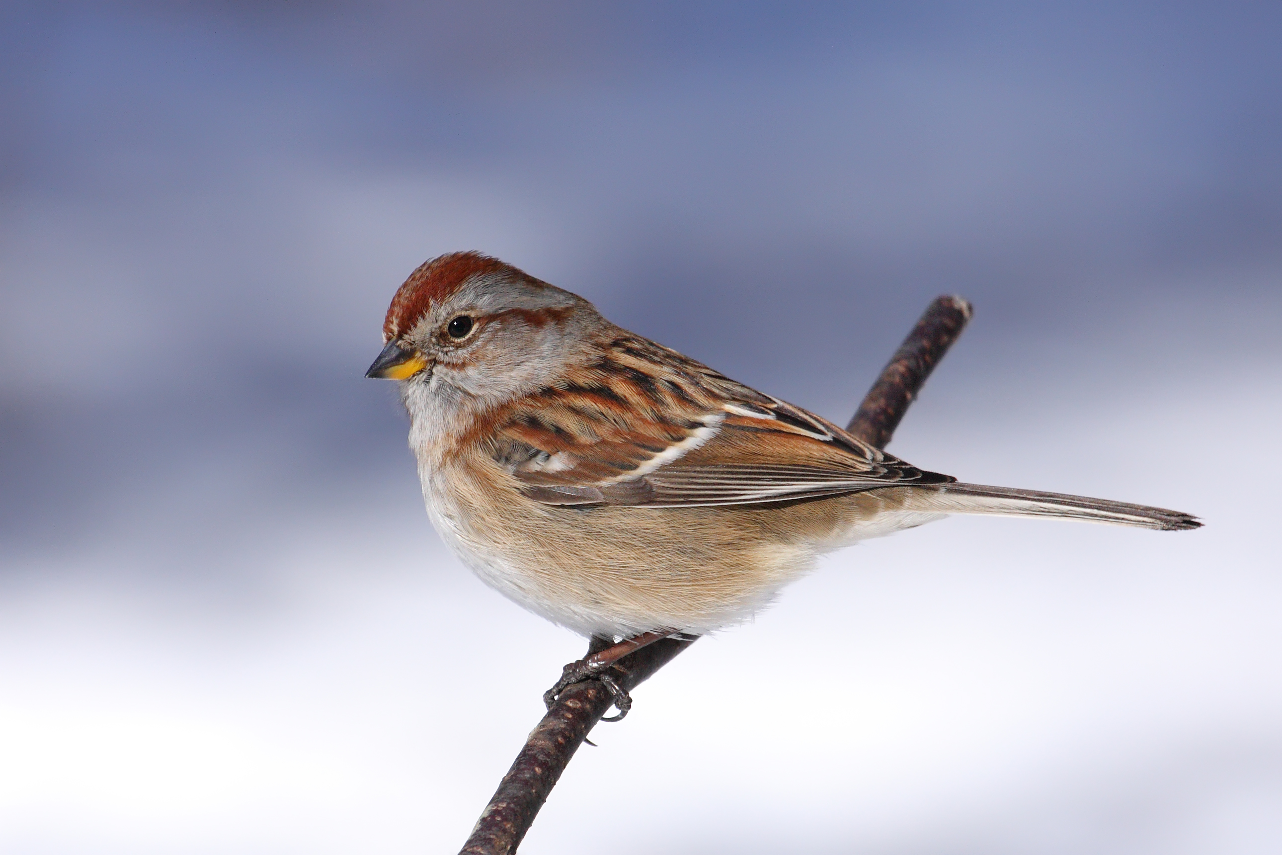 American Tree Sparrow (Spizella arborea), Cap Tourmente National Wildlife Area, Quebec, Canada.